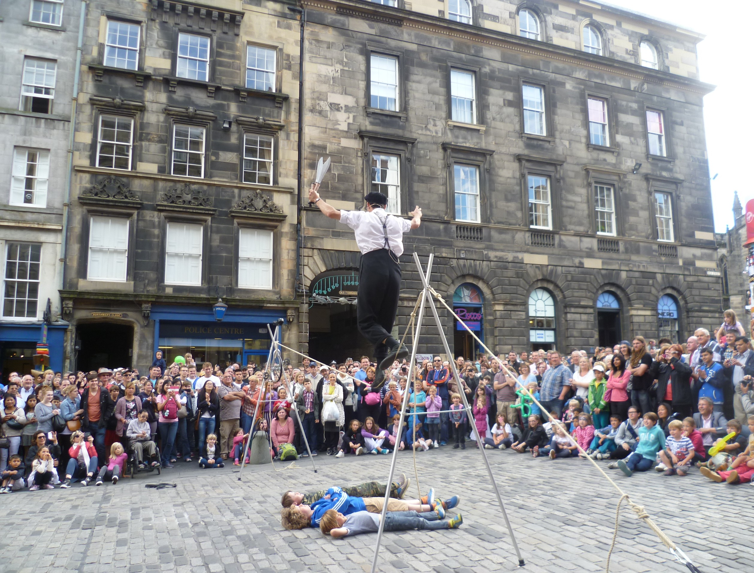 French circus artiste, Antoine, performing in the High Street with the help of three young volunteers in 2013